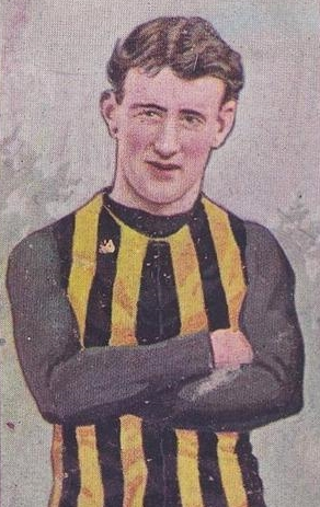 Australian rules footballer Alec Redmond.